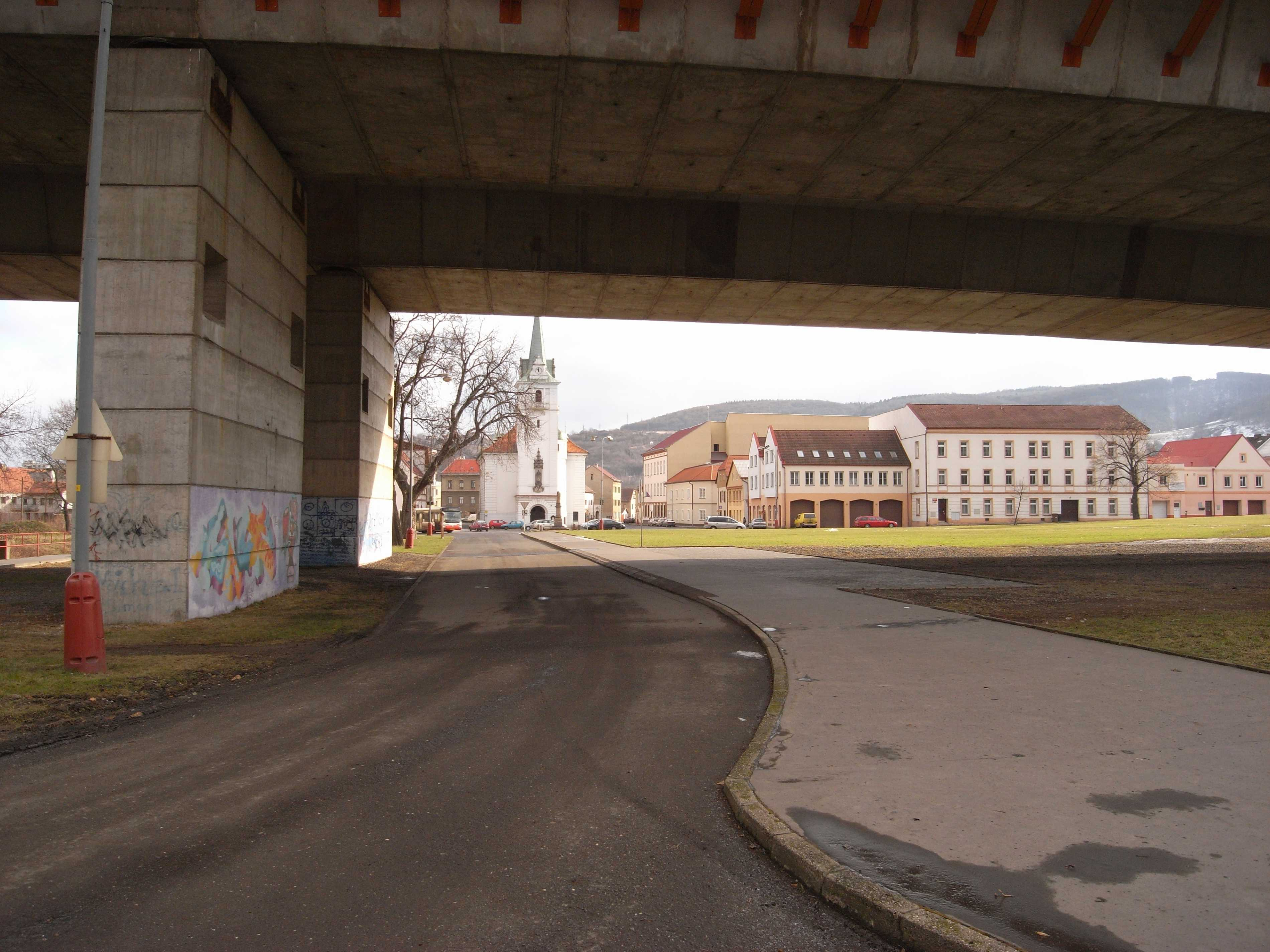 Trmice, highway D8 across city (District Ústí nad Labem, Czech Republic)